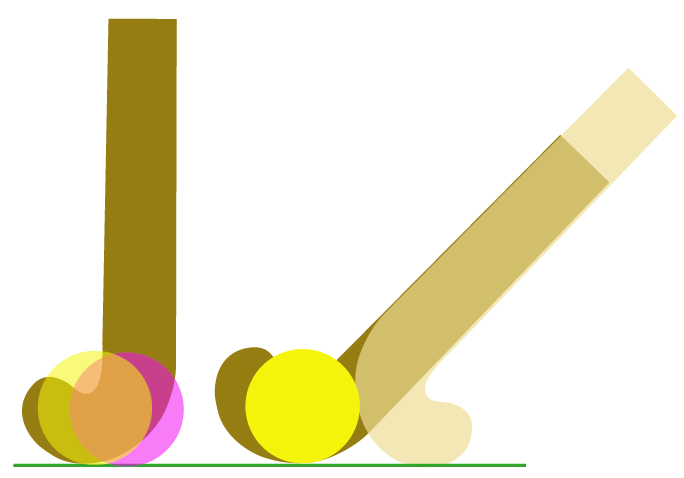 Comparison of very short head on forehand and reverse 45° and vertical against hockey balls.